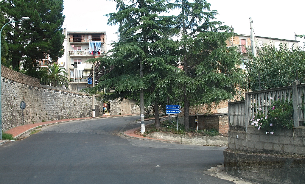 Via Napoli